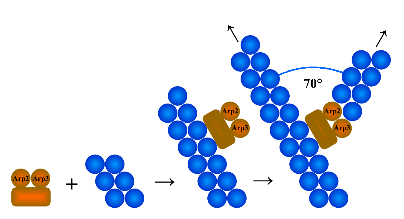 schematic description of the side branching (or dendritic nucleation) model of the Arp2/3 complex